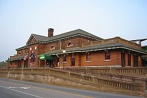 The station building in Fredericksburg, Virginia.